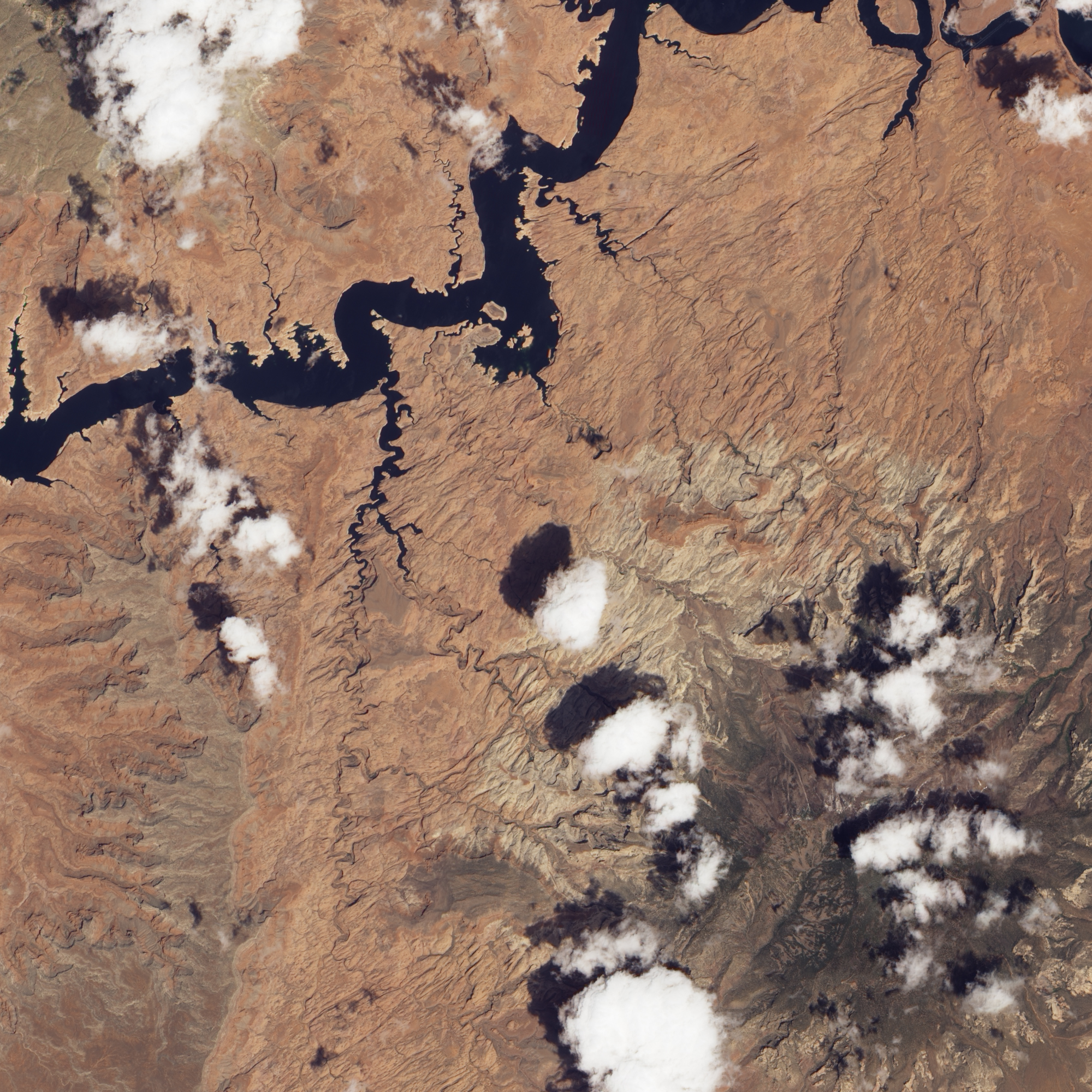 Natural-colour image of the Canyon Lands of Utah area, with Rainbow Bridge and Navajo Mountain (lower right). Red, brown, and beige sandstone formations predominate in this scene. In the past, the water level in Lake Powell has been high enough to submerge the canyon, but if any water trickled through the stream-bed below Rainbow Bridge at the time of this image, the stream was too narrow for the satellite sensor to see. Clouds and canyon walls cast dark shadows toward the north-west. The bridge also casts its own slim shadow.